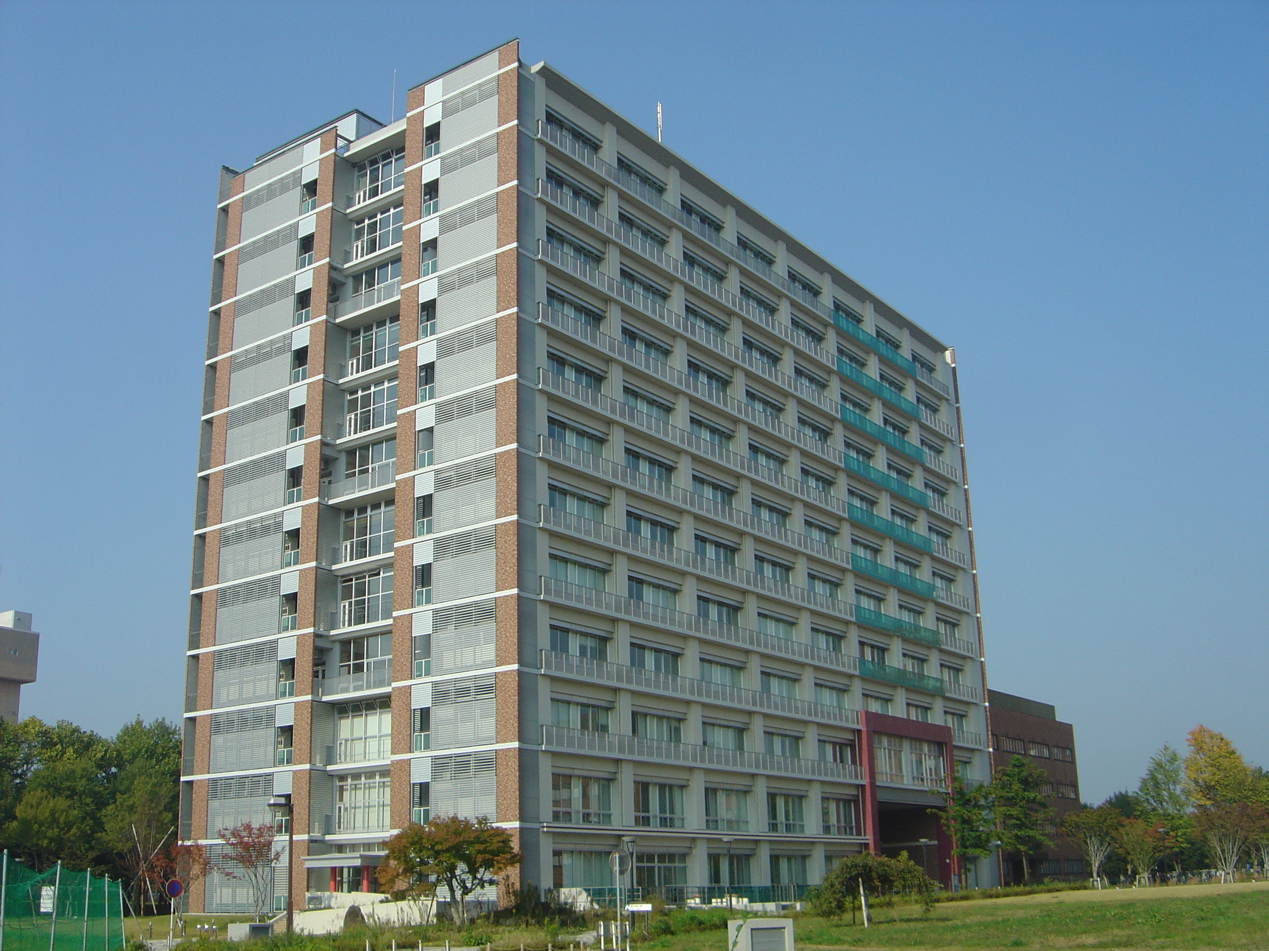 A building in the University of Tsukuba